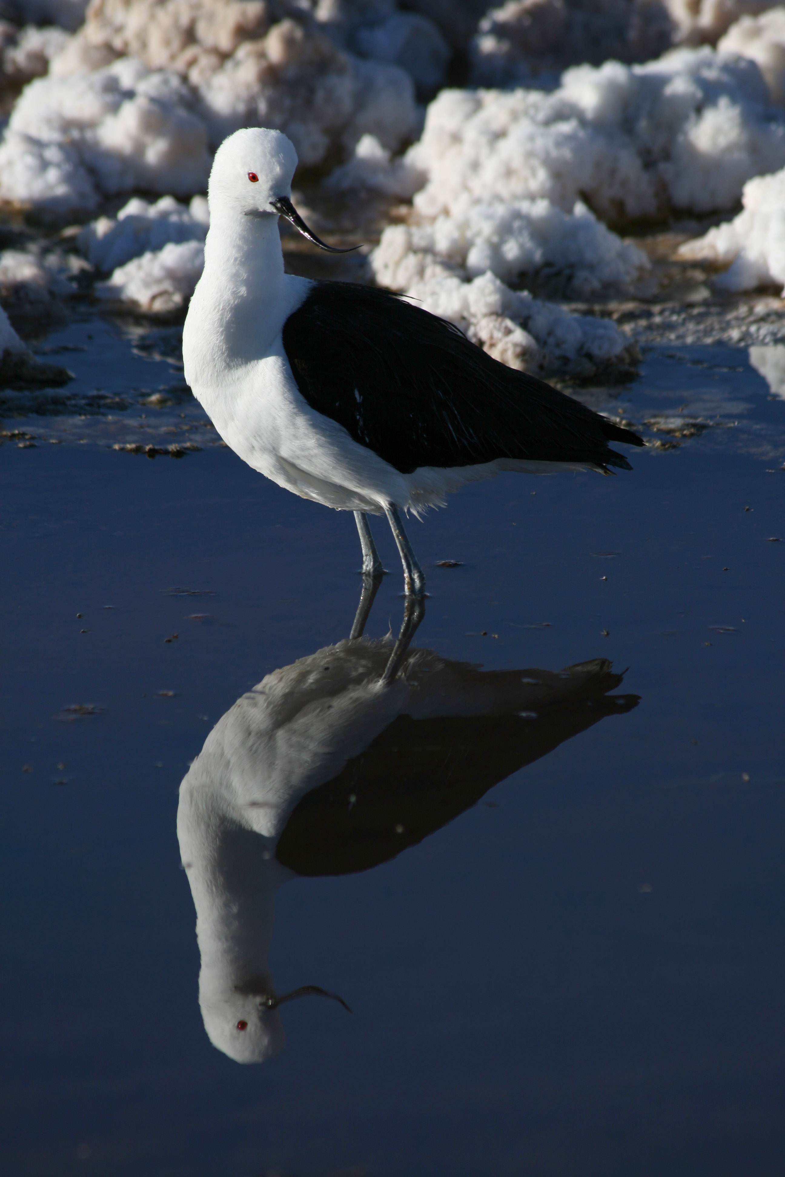 Andean avocet Recurvirostra andina at Laguna Chaxa, Región de Antofagasta, Chile